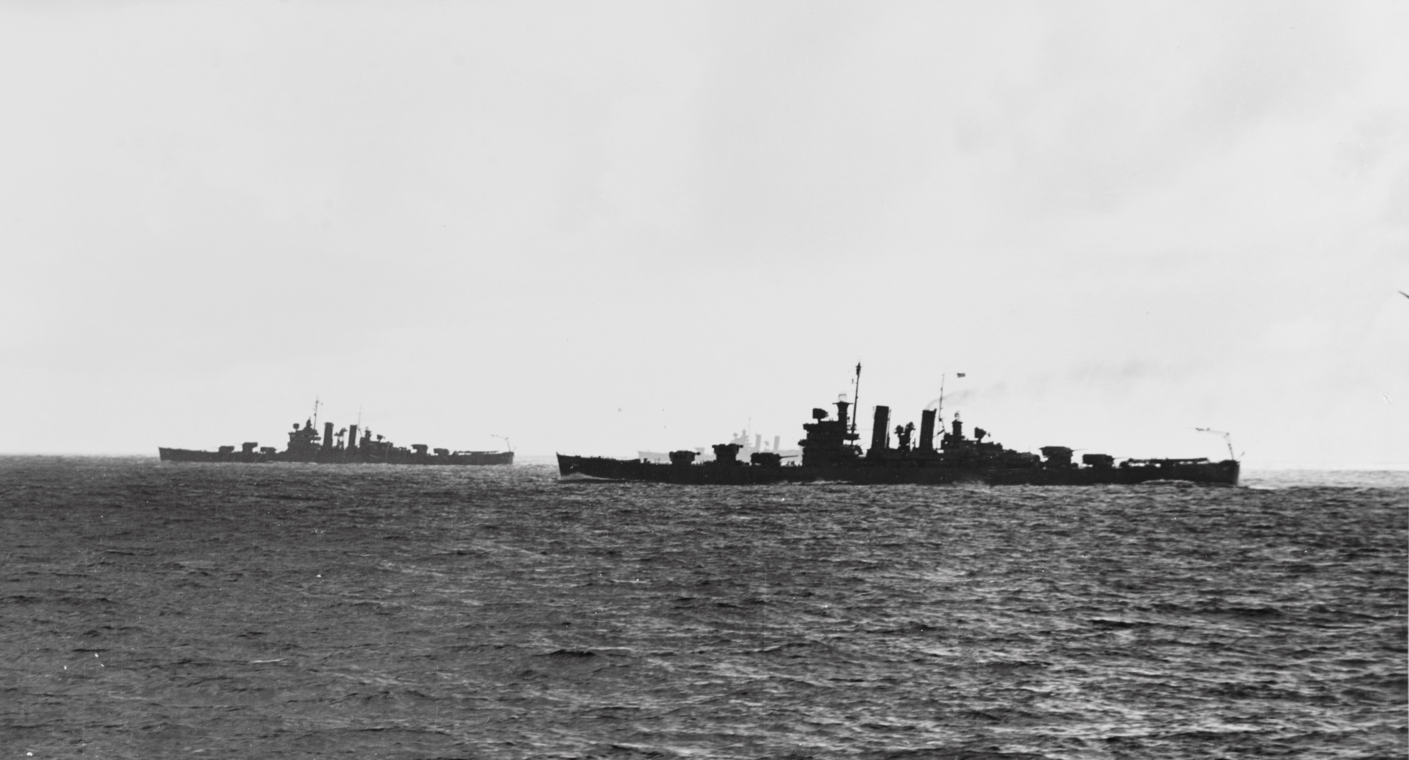 The United States cruisers USS Helena (CL-50) (right), Honolulu (center distance, behind Helena), and St. Louis (left), maneuvering off Espiritu Santo, New Hebrides, during exercises on 20 June 1943, ten days before the invasion of New Georgia. Official U.S. Navy Photograph, now in the collections of the National Archives.